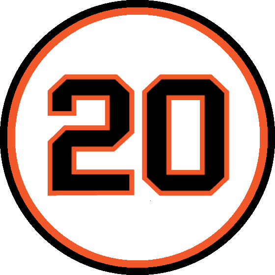 SF Giants retired number placard as shown inside stadium